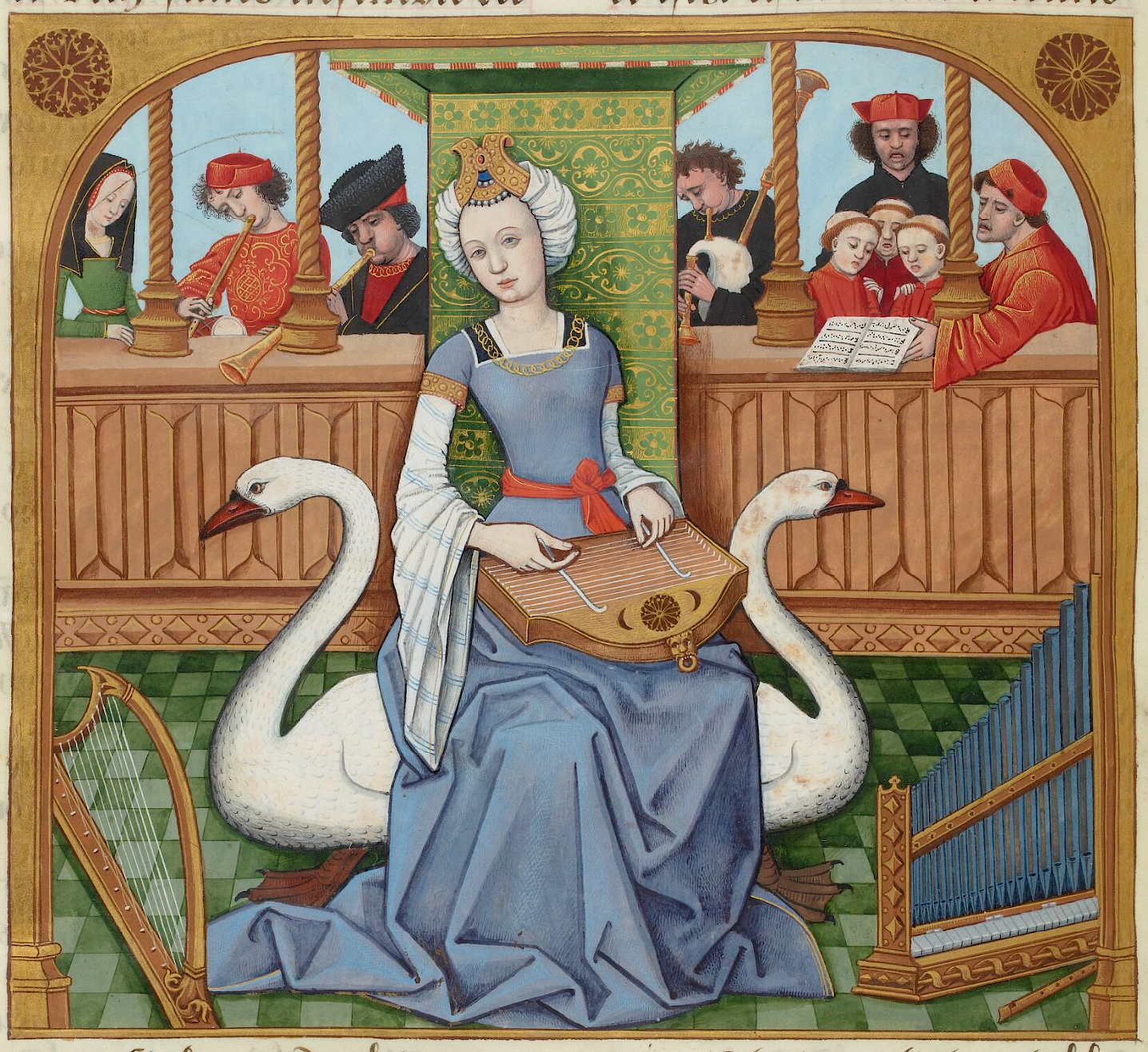 Allegory of Music, in a manuscript of Echecs amoureux